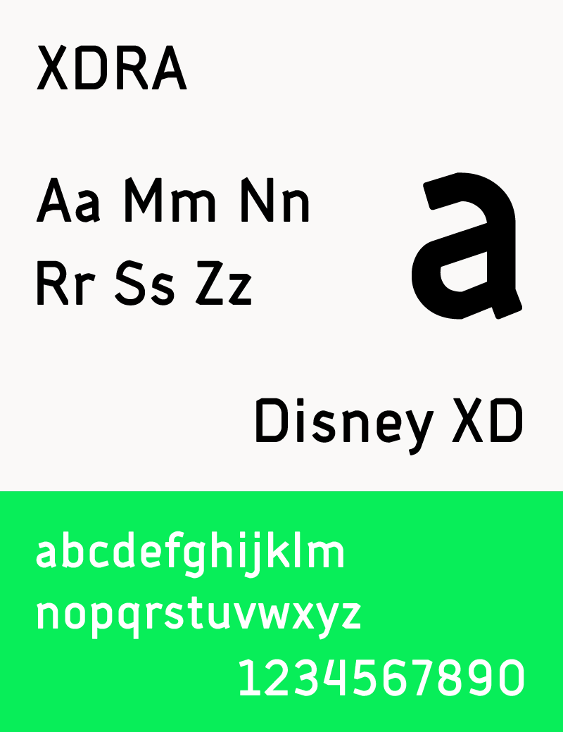 Sample of "XDRA" (typeface made for Disney XD)